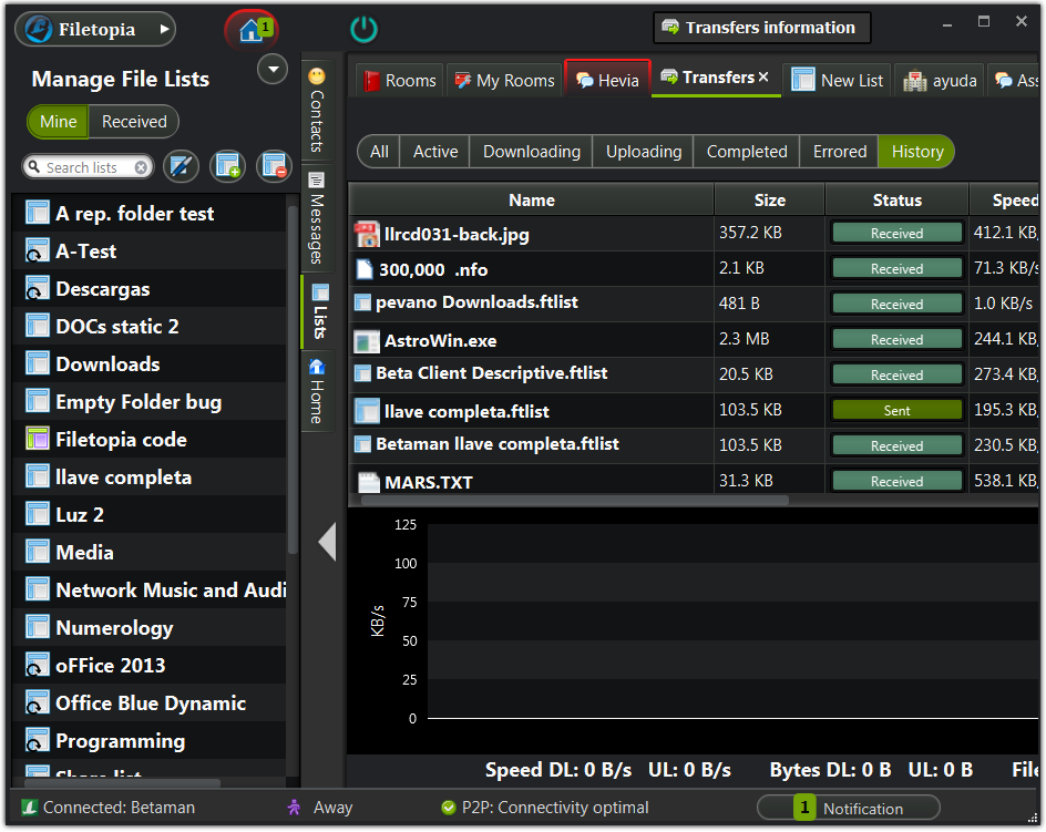 Transfers window - History